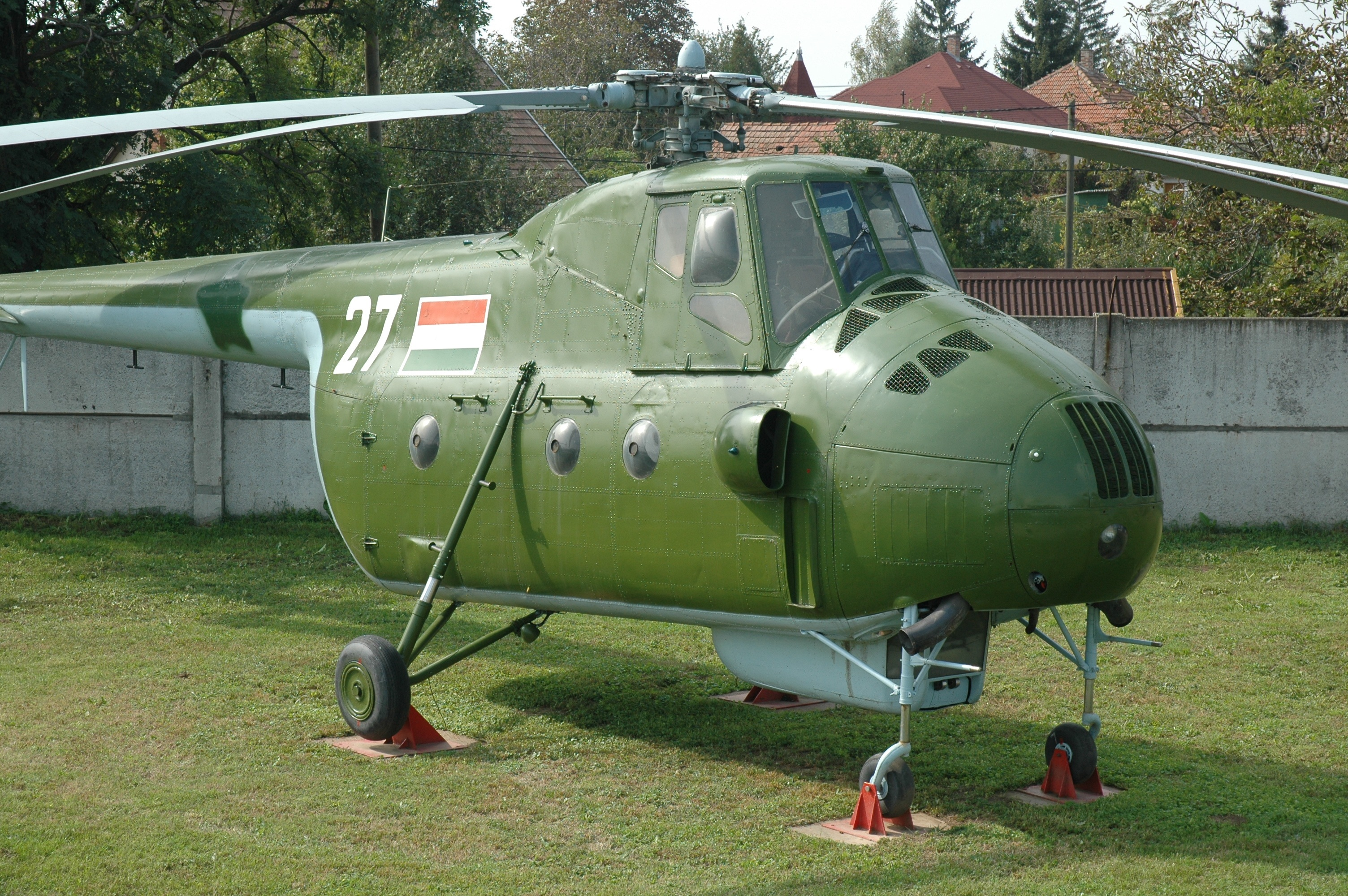 Mil Mi-4 Soviet transport helicopter (displayed at the Hungarian Aviation Museum in Szolnok)